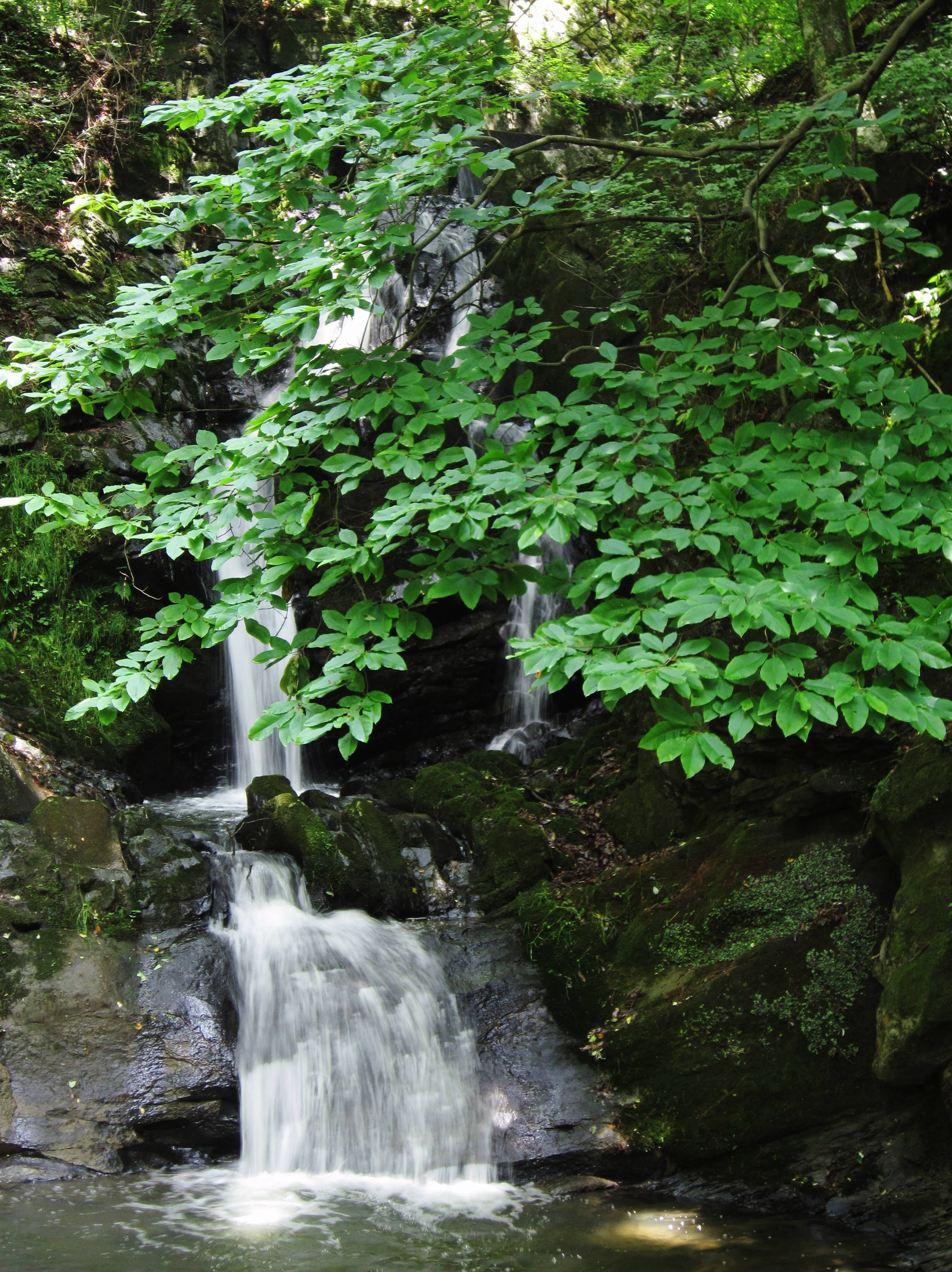 Bessho River Otaki Waterfall.